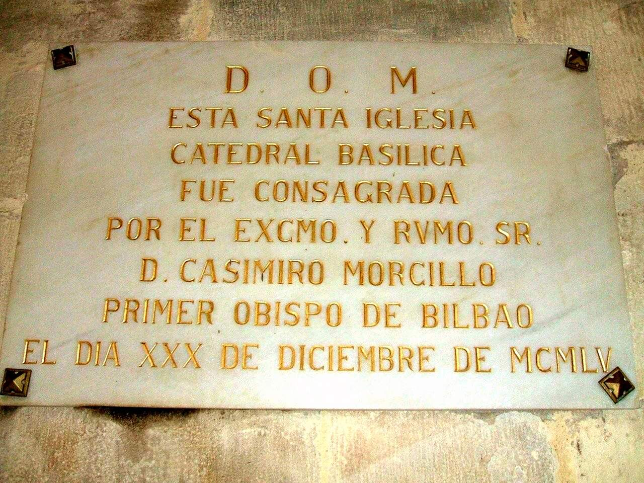 Placa conmemorativa de la consagración de la Catedral Basílica de Santiago de Bilbao, 30 de diciembre de 1955